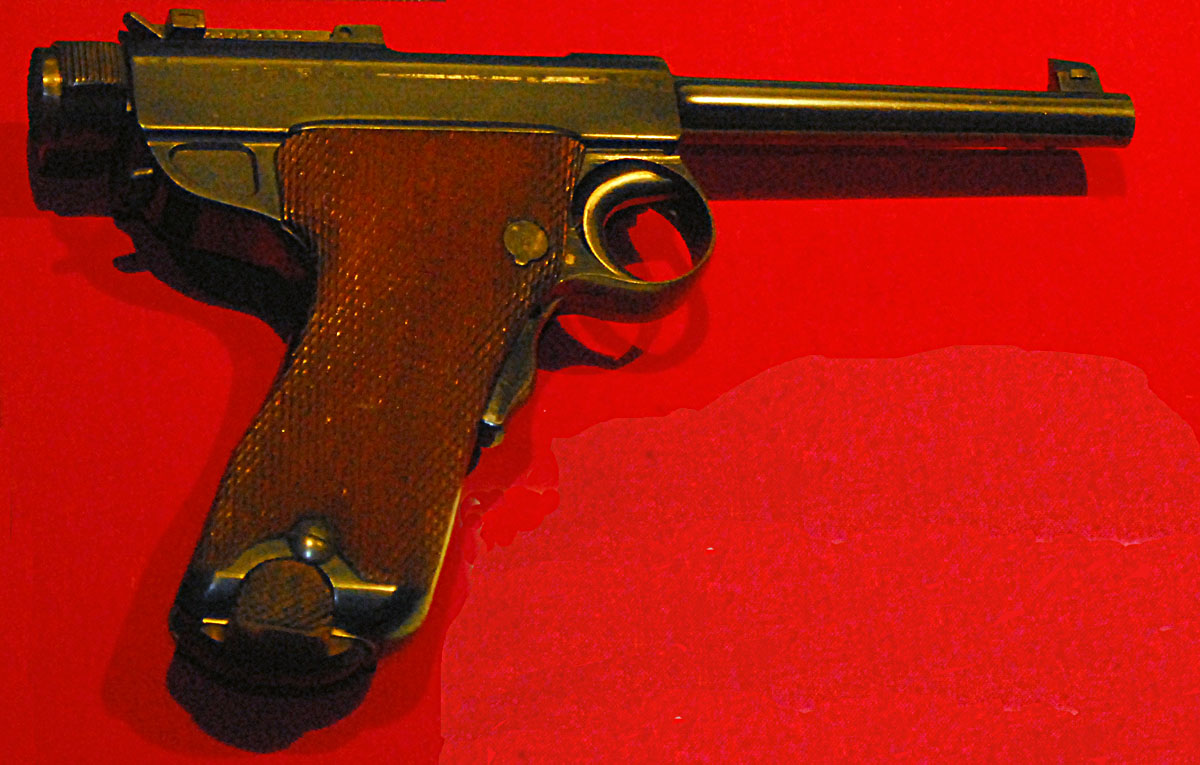 Nambu Automatic Pistol Type A "Grampa Nambu" 8mm c. 1902